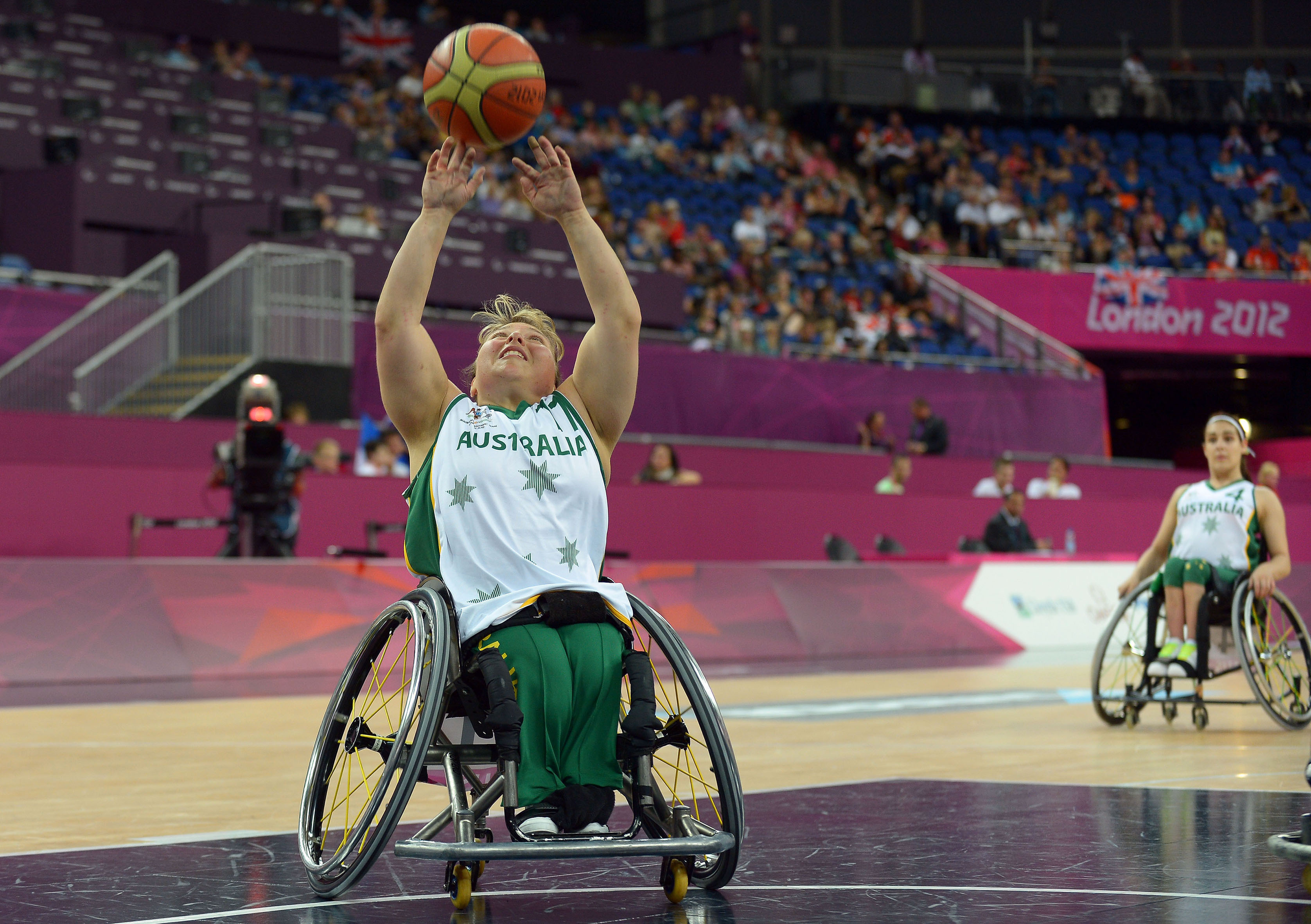 Photograph of Australian Paralympic team member Kylie Gauci at the 2012 Summer Paralympic Games in London